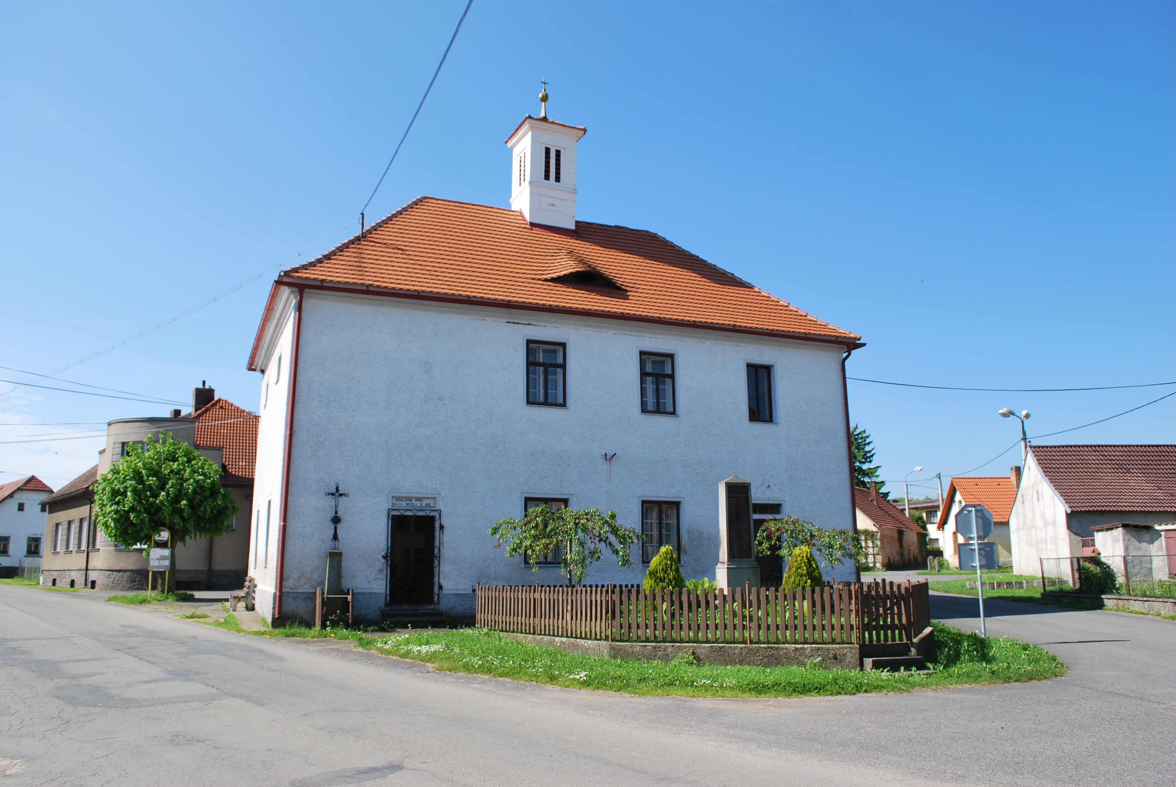 Soběšice village in Klatovy District, Czech republic. This photograph was taken within the scope of the 'Czech Municipalities Photographs' grant.